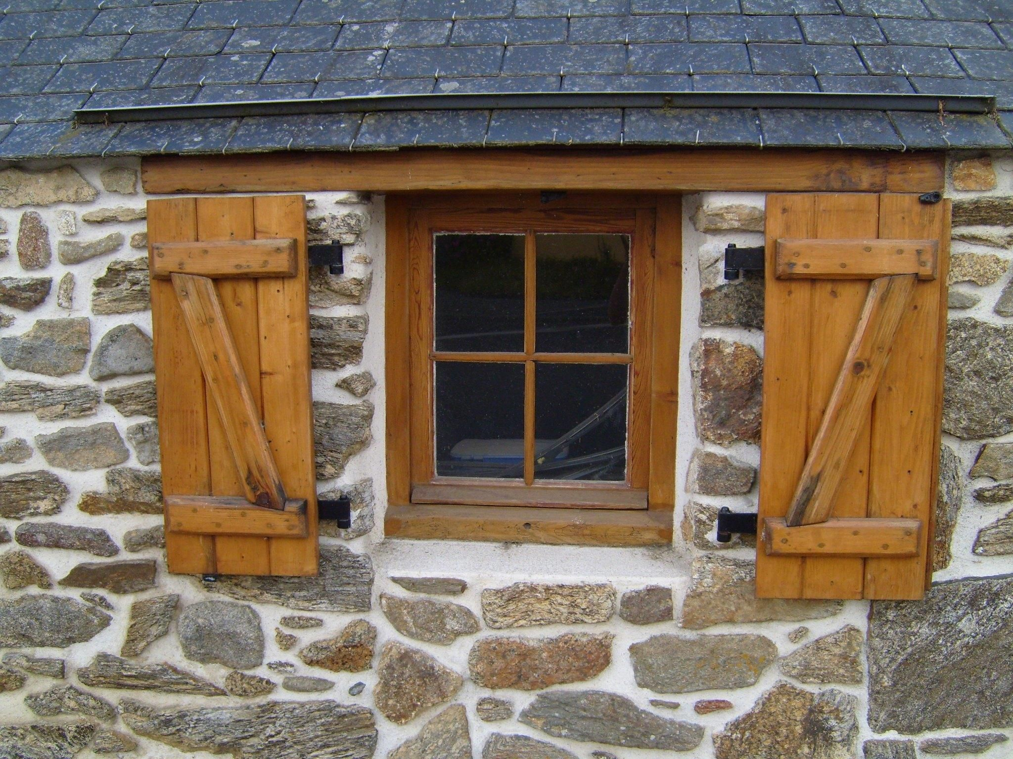 Image title: Old wooden window Image from Public domain images website